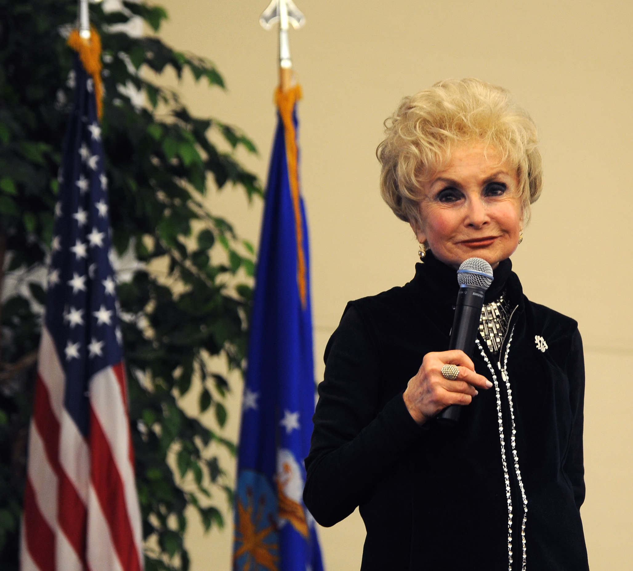 Esther Jungreis speaks in the Scott Club during the 2012 National Prayer Breakfast on Scott Air Force Base, Ill Feb. 14. Jungreis is a Holocaust survivor who now dedicates her life to promoting spiritual resiliency and moral and ethical values. For more than 40 years, Jungreis has written a weekly column for The Jewish Press and author of “The Committed Life”.